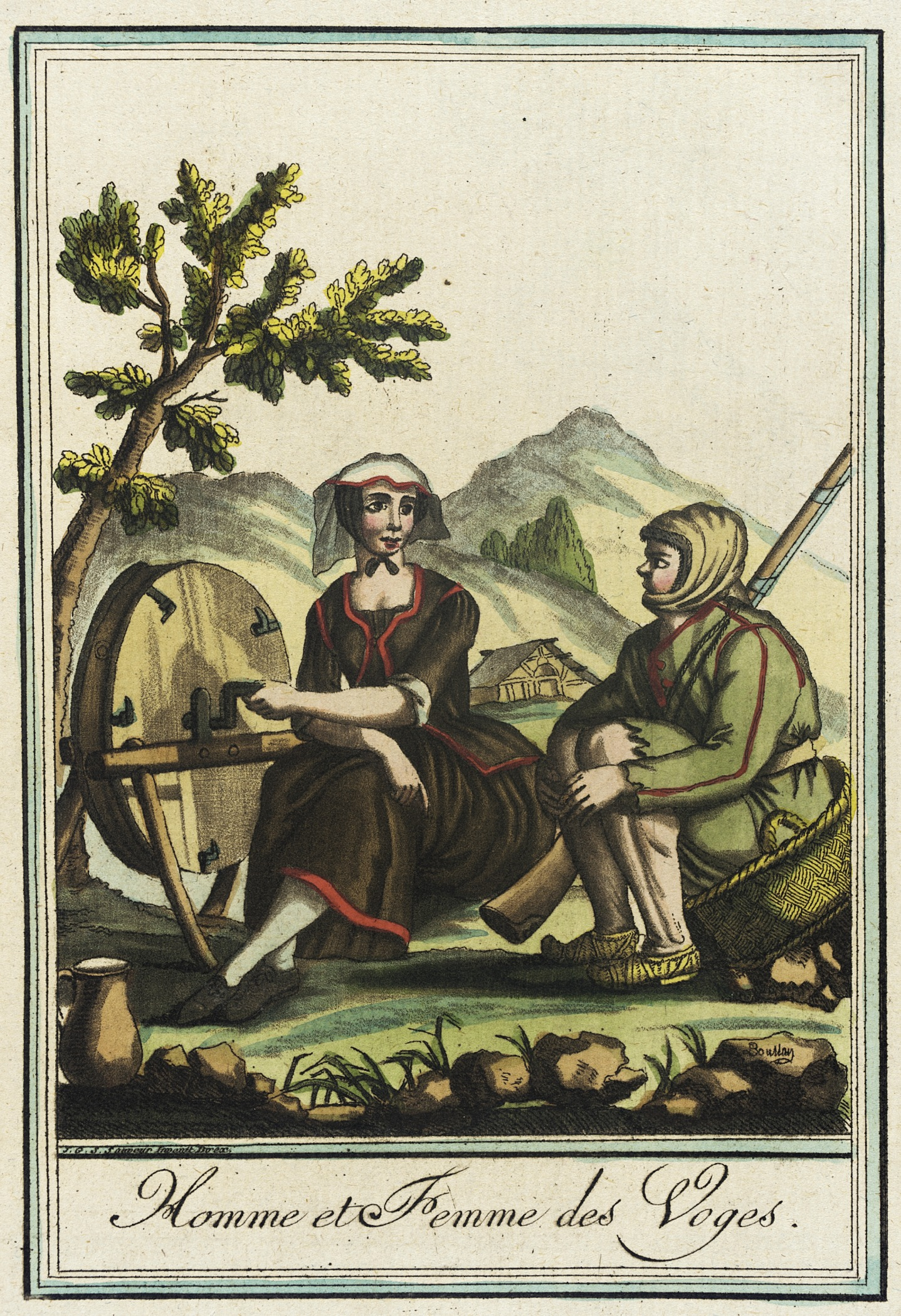 France, circa 1797 Prints; engravings Hand-tinted engraving on paper Sheet: 10 1/2 x 7 3/4 in. (26.67 x 19.69 cm); Composition: 7 3/4 x 5 1/2 in. (19.69 x 13.97 cm) Costume Council Fund (M.83.190.7) Costume and Textiles